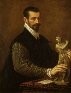 Tiziano Aspetti (1557-1606)